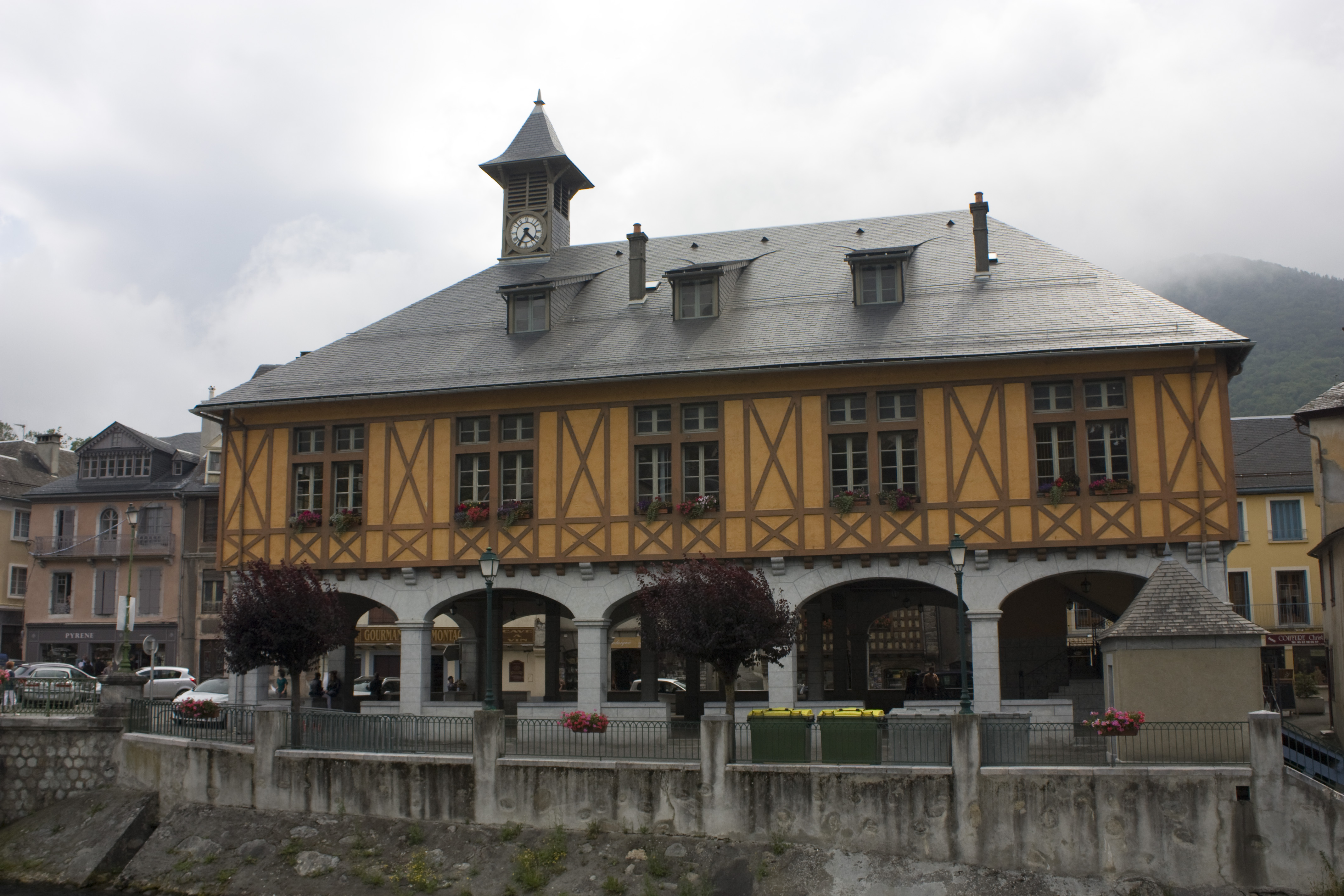 Town and Market Hall, built in 1930, on the old covered timbered market place to enlarge the main street, close to the main bridge.